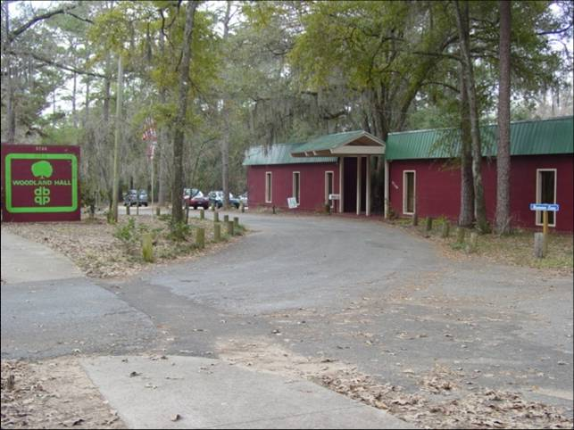 Woodland Hall Academy Outside Exterior Dyslexia